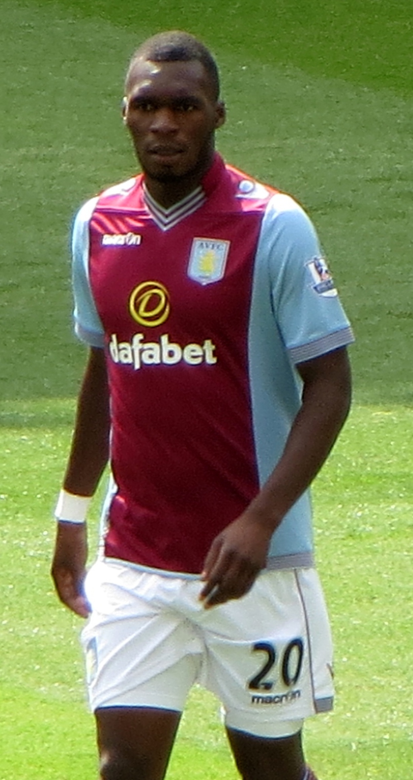 Christian Benteke playing for Aston Villa in a pre-season friendly against Malaga on 10 August 2013 at Villa Park.